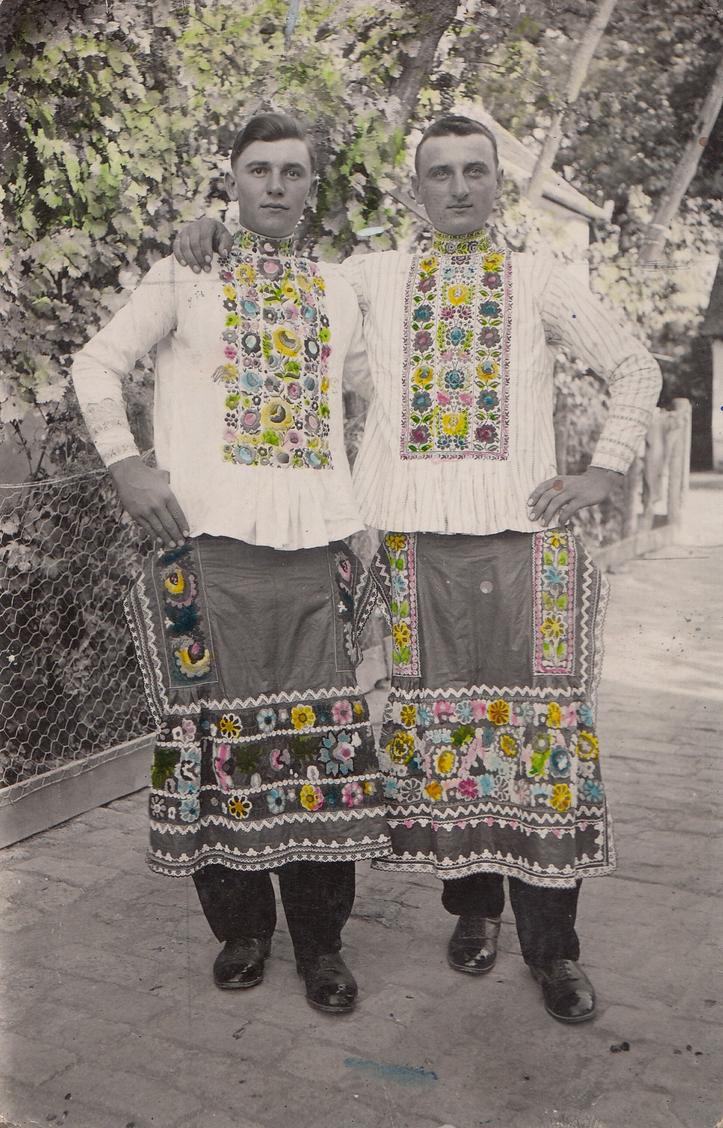 Vojvodinian Slovak boys in national costume (velvet trousers, formal aprons and embroidered shirts). They dressed this way when they went to the dance. Selenča (Vojvodina, Serbia), mid-20th century. Srpski (latinica): Slovački mladići u narodnoj nošnji (somot pantalone, svečane kecelje i vezene košulje). Ovako obučeni su išli u kafanu na igranku. Selenča, polovina 20. veka.